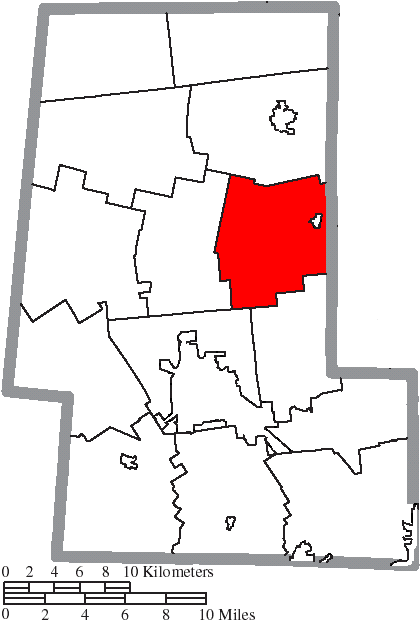 Map of the municipal and township boundaries of Union County, Ohio, United States, as of the 2000 census, with the location of Leesburg Township highlighted. Township borders are shown only in unincorporated areas in order to differentiate incorporated and unincorporated areas more clearly.